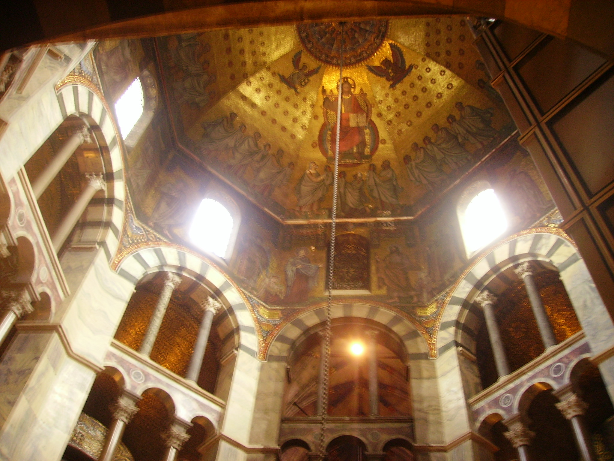 Octagon of the catholic Imperial Cathedral of Our Lady, Aachen